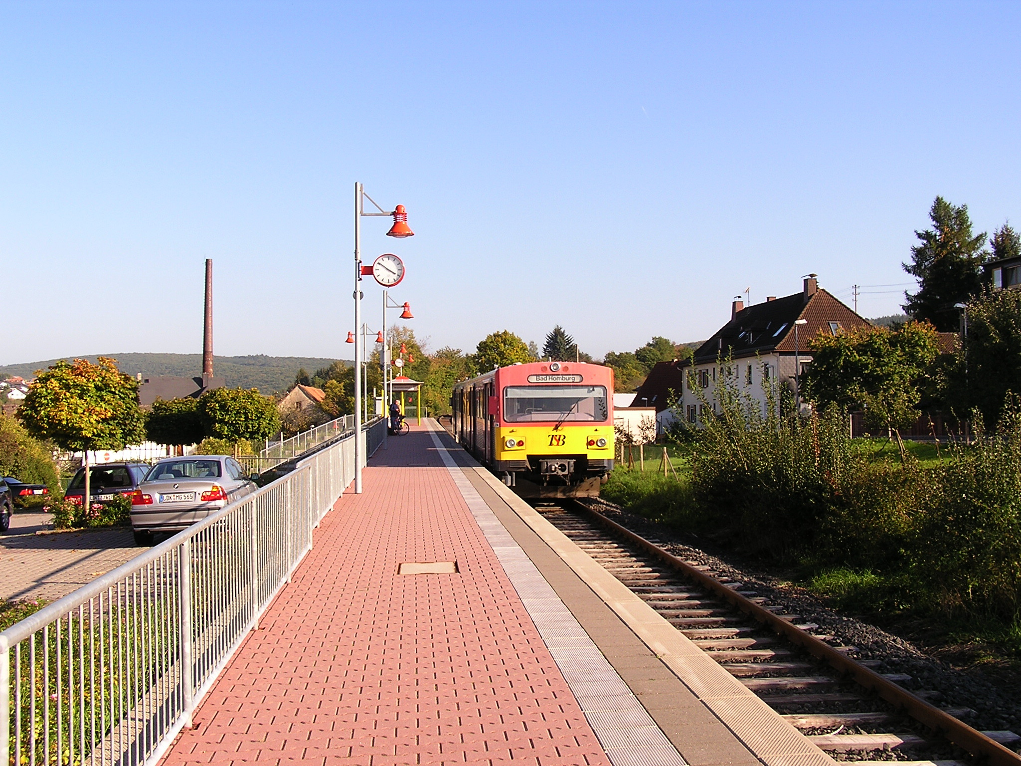 VT 2E in the station Waldsolms-Brandoberndorf, terminal stop of the Taunusbahn.